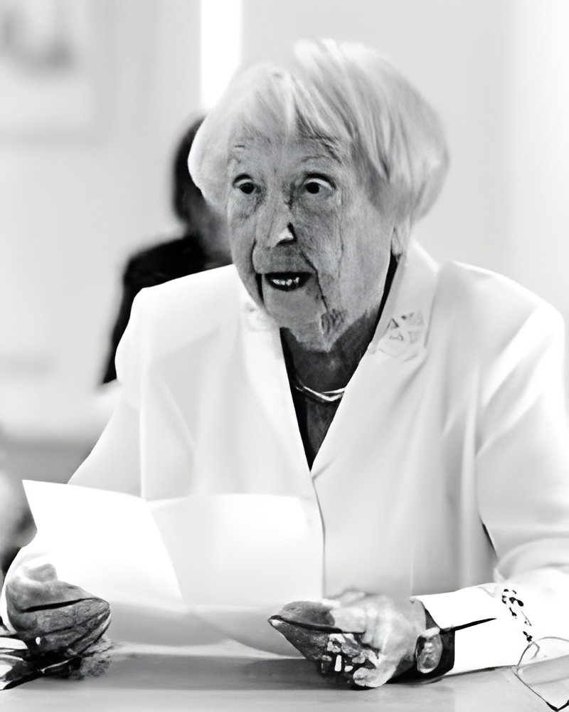 Elfriede Brüning at the Strandhalle Ahrenshoop on June 13, 2003 while an lecture of her book "Vom schlimmen Anfang"